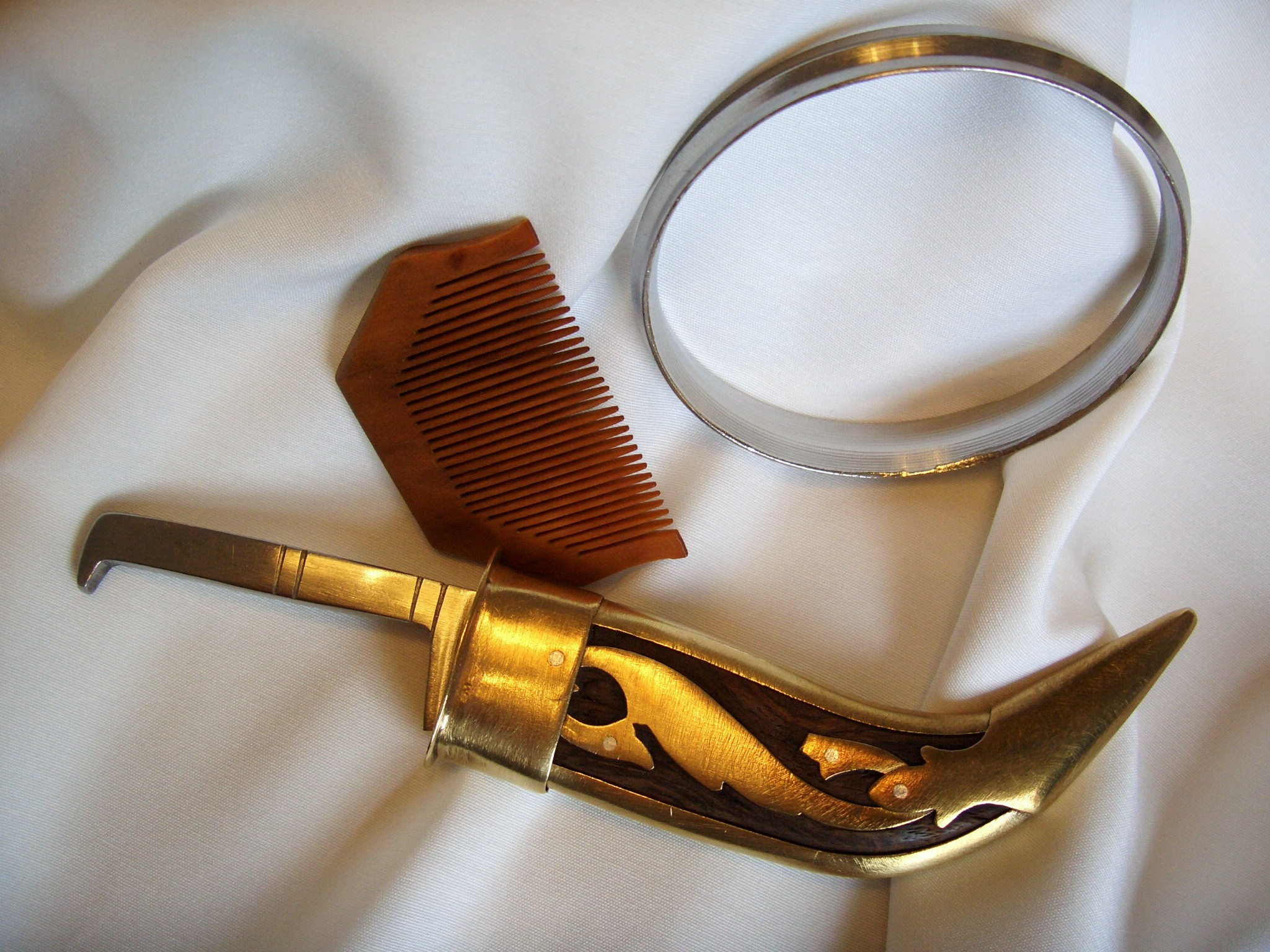 3 Kakkars - Kara, kanga and kirpann